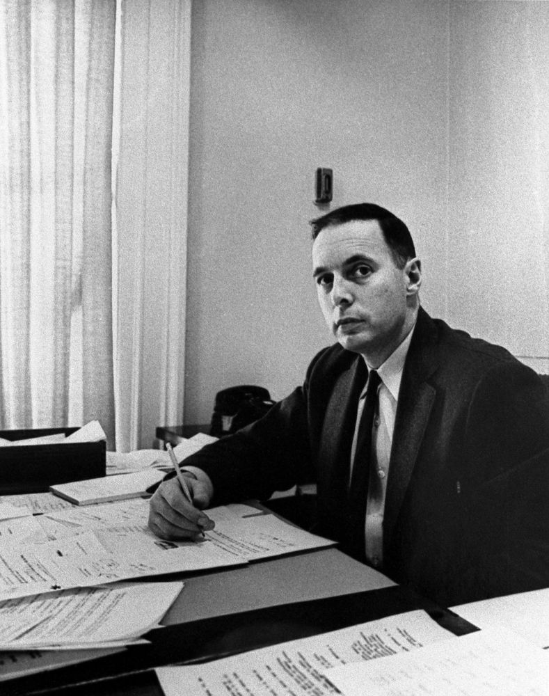 AR6295-G. Special Assistant to the President Ralph Dungan